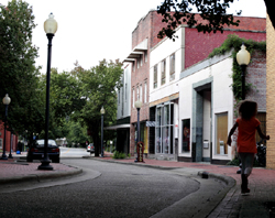 One of the downtown side streets with shops and restaurants. Photo taken by Webelos Scouts of Den 3, Pack 895.